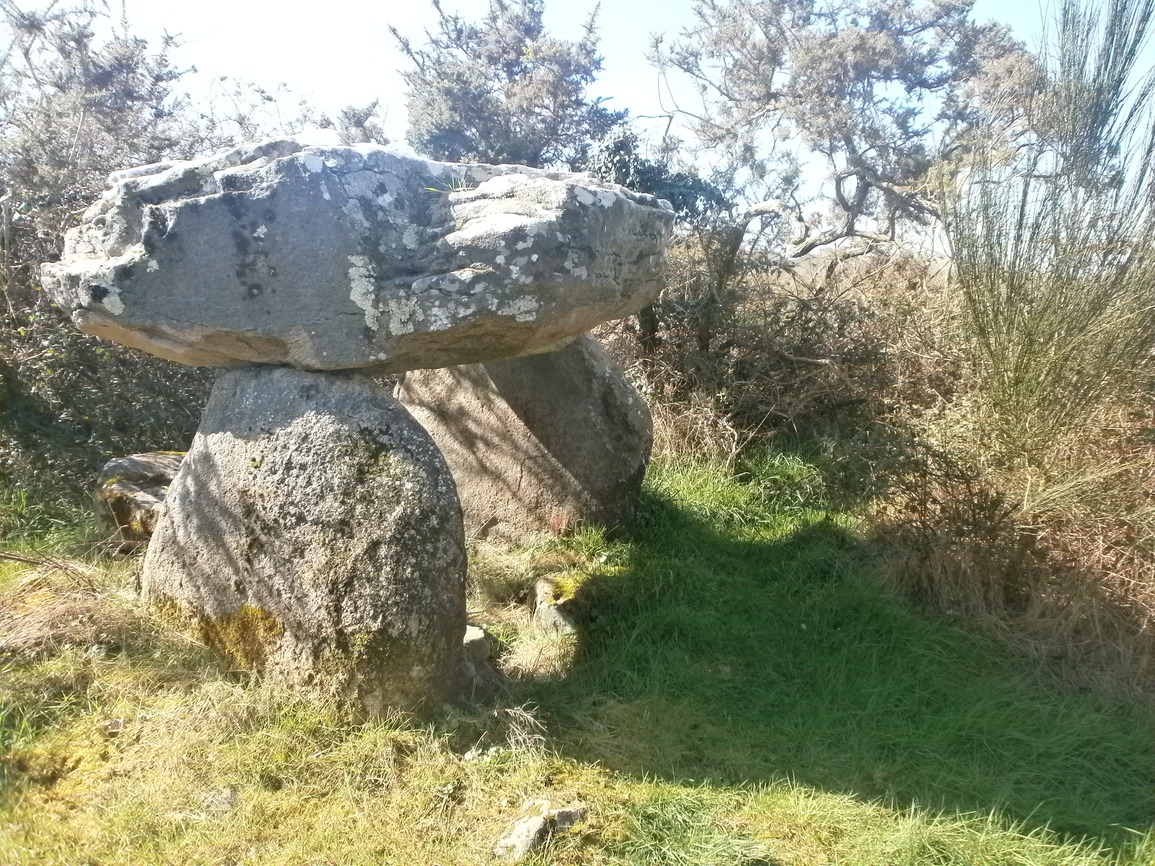 Un dolmen près de Carnac